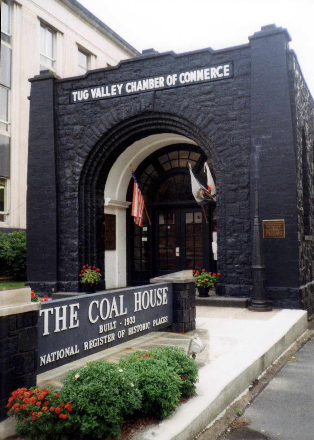 The Coal House museum in Williamson, West Virginia, United States. The coal building is on the National Register of Historic Places in Mingo County, West Virginia. Photo taken summer 1998. Self-made photo.